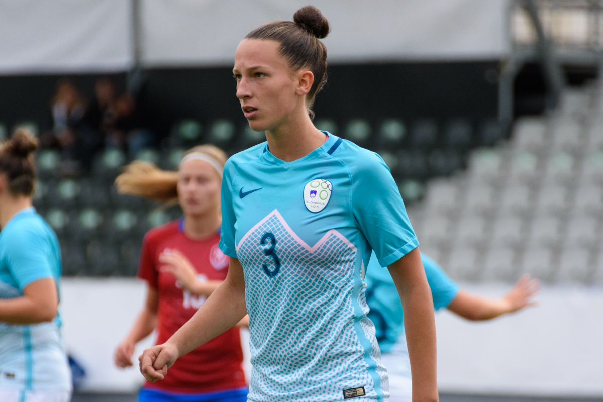 Sara Agrež during the World Cup qualifier Czech Republic vs Slovenia